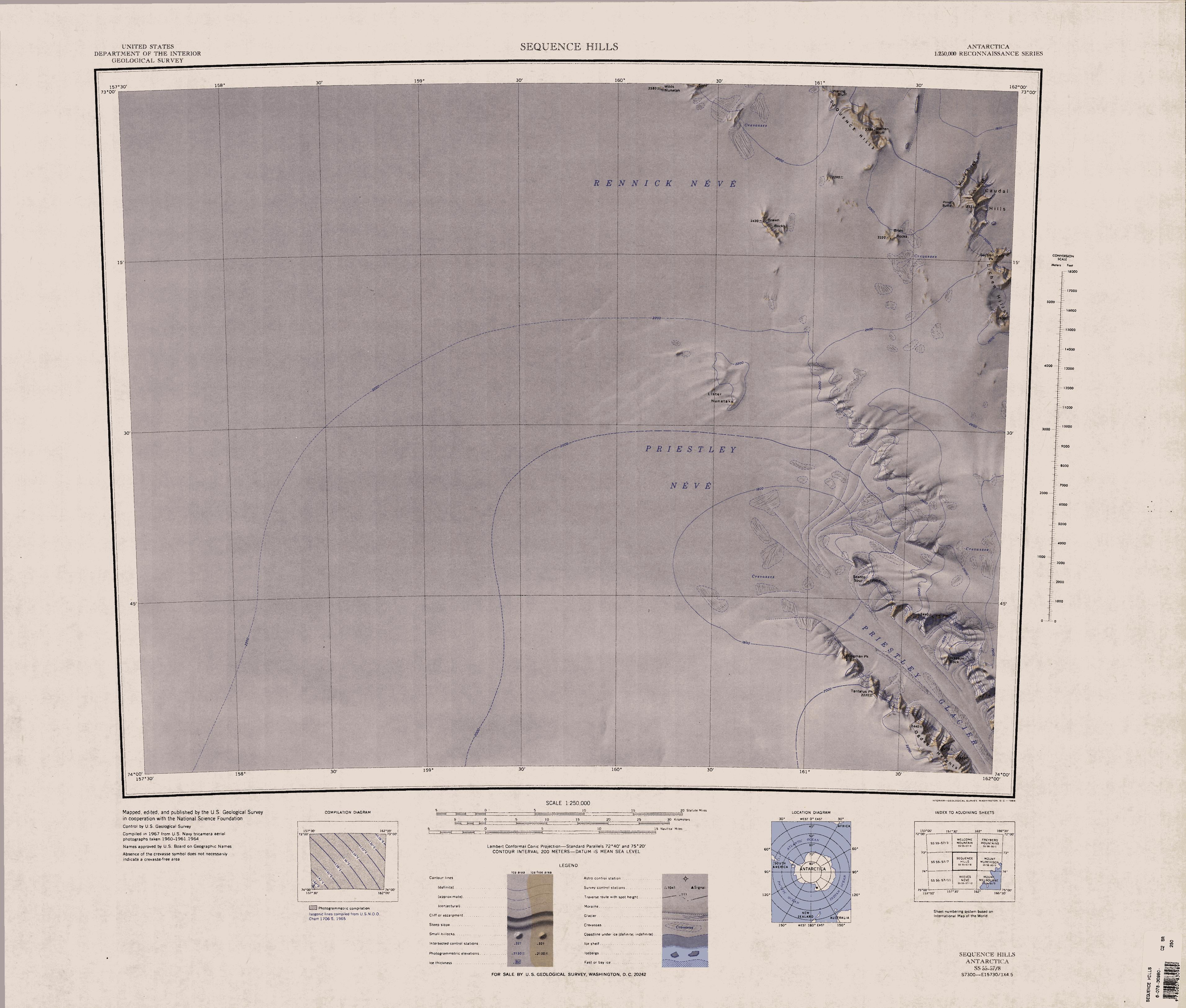 1:250,000-scale topographic reconnaissance map of the Sequence Hills area from 157°30'-162°E to 73°-74°S in Antarctica, including the upper part of Priestley Glacier. Mapped, edited and published by the U.S. Geological Survey in cooperation with the National Science Foundation.